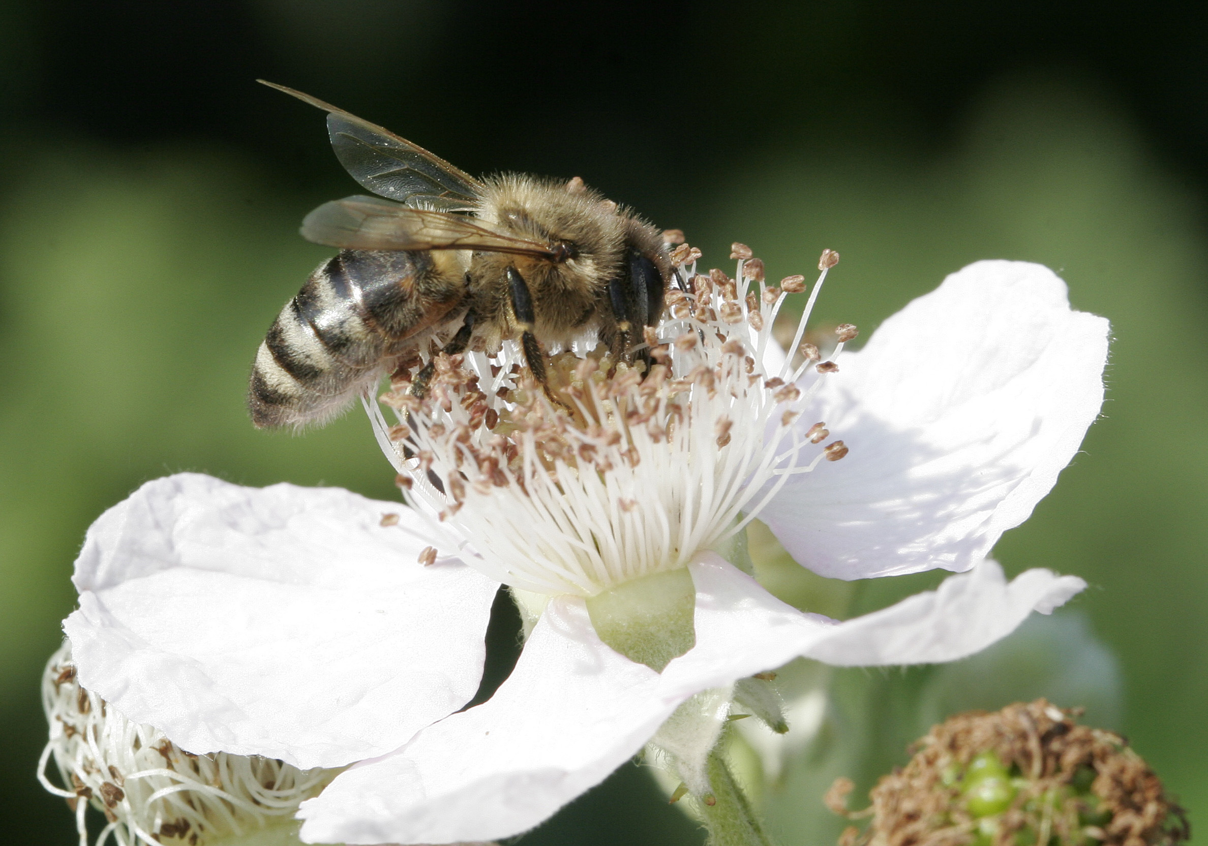 Blooming blackberry with bee.